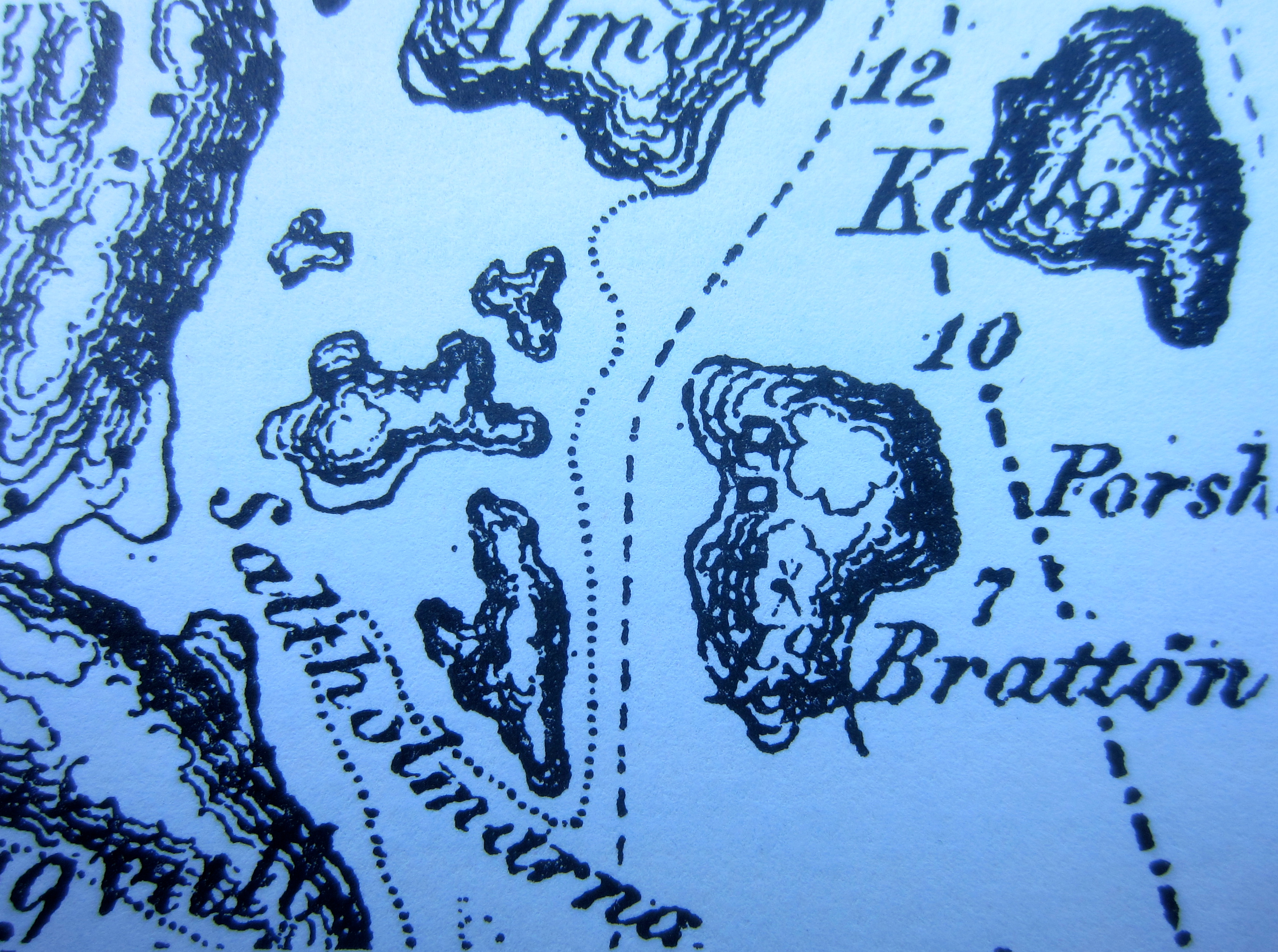 Lilla Brattön - The Little Steep Island - on a map from 1863.